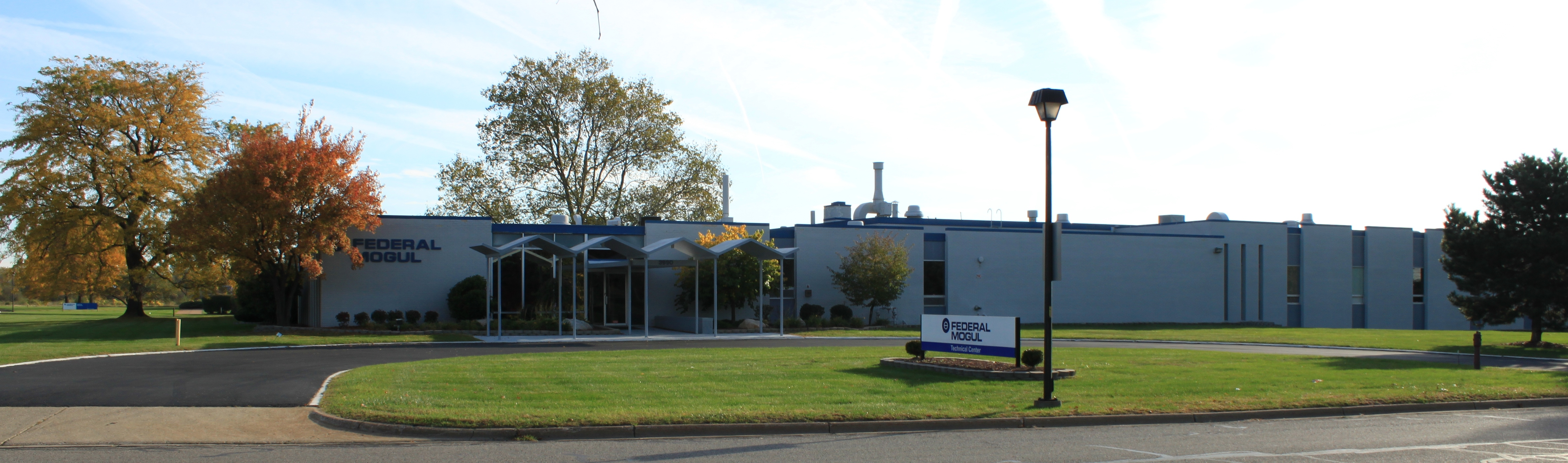 Federal Mogul Technical Center, 3990 Research Park Drive, Ann Arbor, Michigan